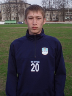 Vitālijs Rečickis, Latvian football player.